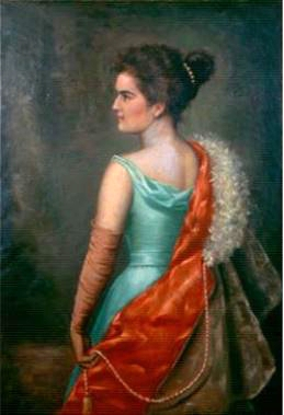 Portrait of the artist's sister, Isabel